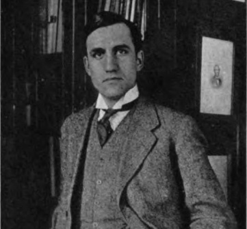 Charles Gordon Hewitt, Canadian entomologist and conservationist